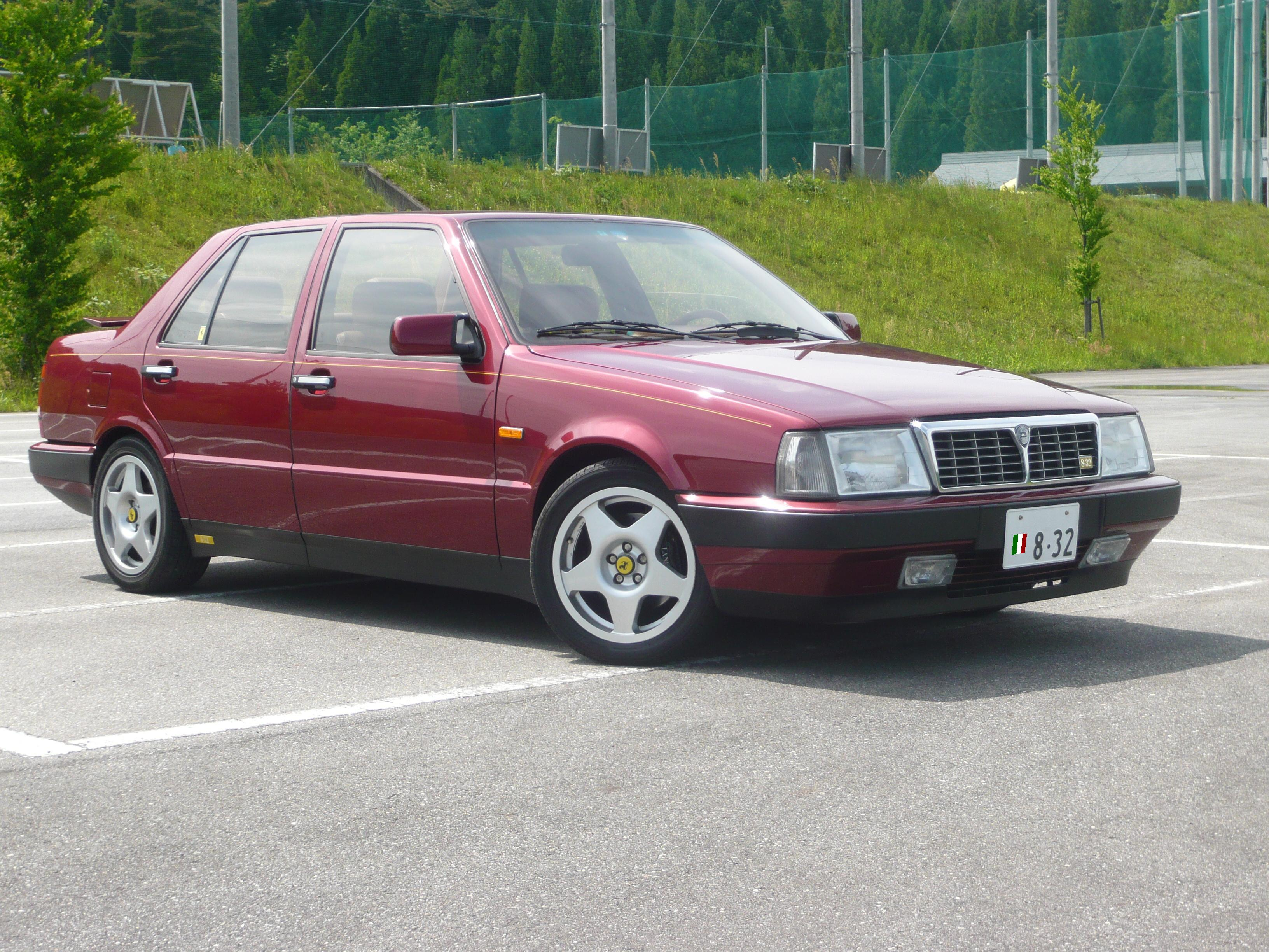 Lancia Thema 8･32